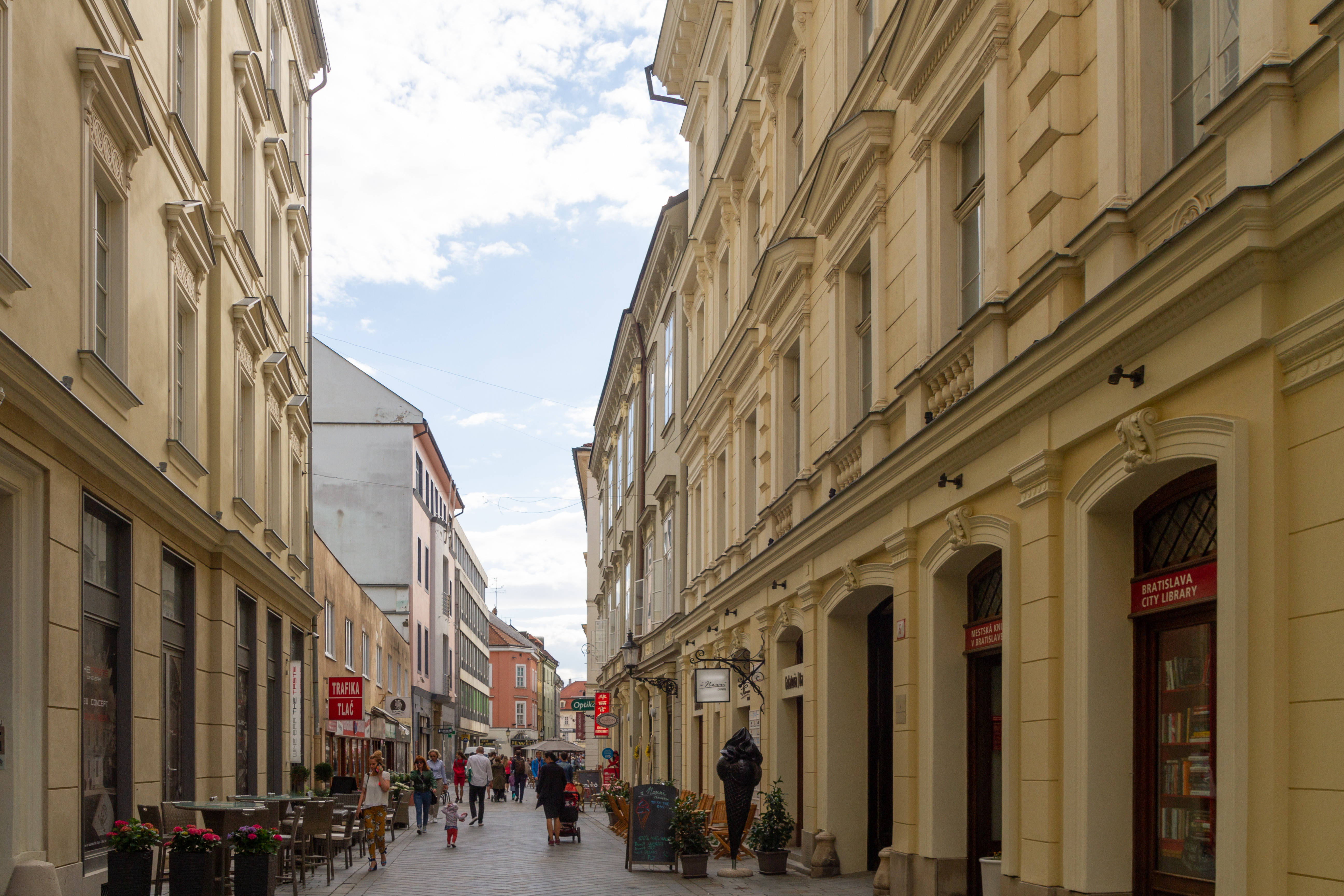 Laurinská, Bratislava